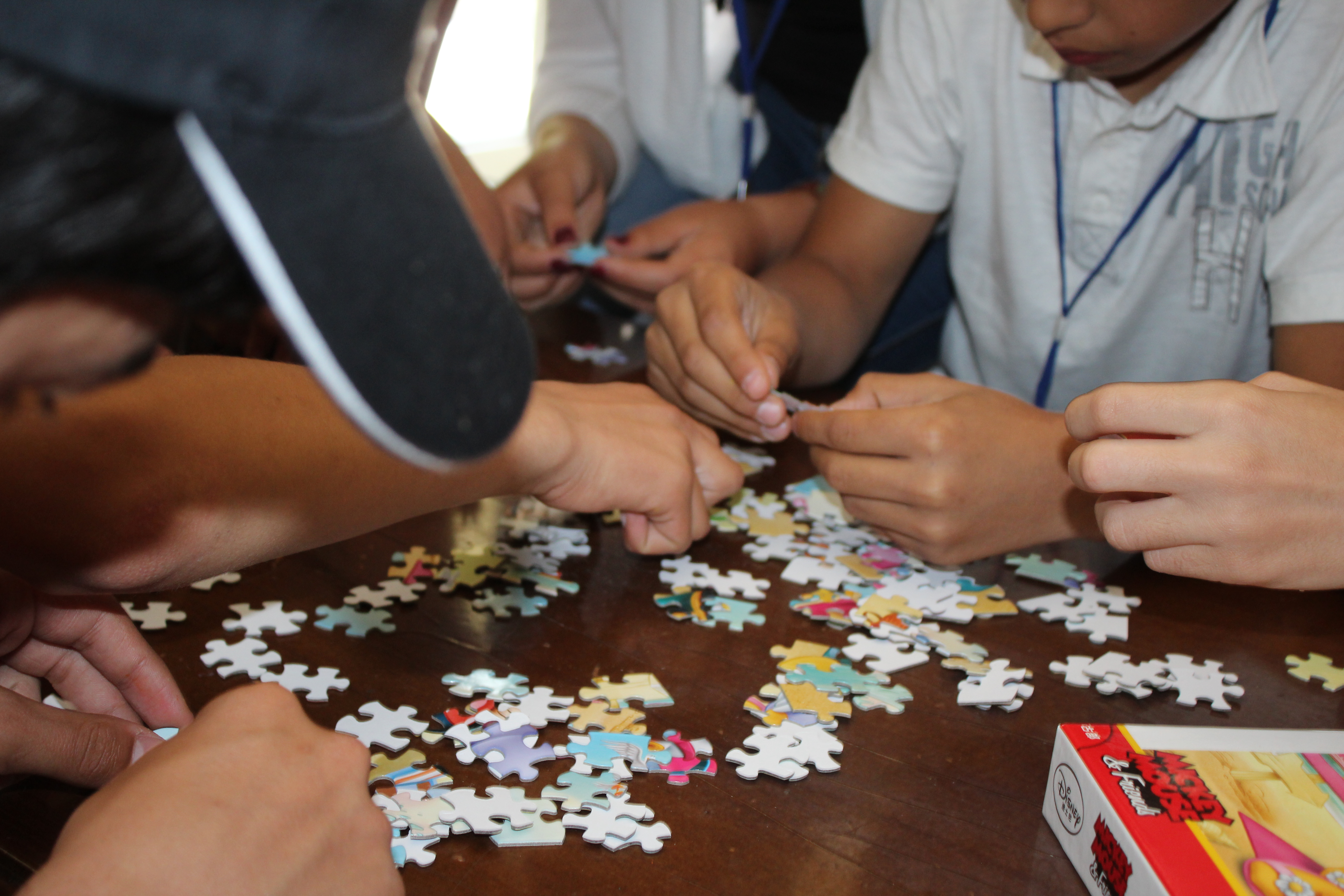 Summer Wikicamp 2017 (I)